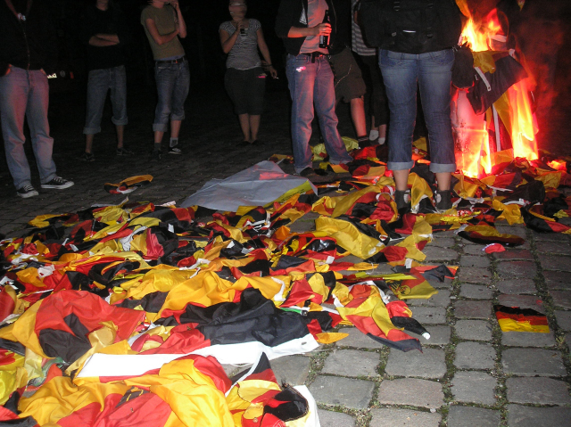 1021 German flags in yellow, black and red were burned in Nuremberg. This was justified by a "national symbol which has the function from exclusion" or for an exclusion based on national unity "Enforced by a constitution and its police, in order to gain a better standard of living quality." From Wikipedia: "Under German criminal code (§90a Strafgesetzbuch (StGB)) it is illegal to revile or damage the German federal flag as well as any flags of its states in public. Offenders can be fined or sentenced for a maximum of three years in prison. Offenders can be fined or sentenced for a maximum of five years in prison if the act was intentionally used to support the eradication of the Federal Republic of Germany or to violate constitutional rights. Actual convictions because of a violation of the criminal code need to be balanced against the constitutional right of the freedom of expressions, as ruled multiple times by German's constitutional court. As for flags of foreign countries, it is illegal to damage or revile them, if they are shown publicly by tradition, event or routinely by representatives of the foreign entity (§104 StGB). On the other hand it is not illegal to desecrate such flags that serve no official purpose (especially including any the one willing to desecrate them brings by himself for that purpose). During the 2006 World Cup the anti-German German musician Torsun (half of the group Egotronic) recorded a techno cover of the song "Ten German Bombers". The song and its accompanying YouTube video (featuring footage of German planes being shot down, the Wembley goal, a burning German flag, etc.) attracted media attention in Germany, as well as from the British tabloid News of the World. The song was eventually included in the World Cup themed compilation Weltmeister Hits 2006."